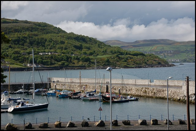 Glenarm marina. Glenarm harbour was used mainly for the export of limestone from the nearby quarry. Both were - at one time - owned by Ross & Marshall who also owned a fleet of puffers. Puffers were frequent visitors loading out limestone. The harbour became too small for modern shipping and became an eyesore after years of disuse. At one time it was used as a dump for bits of fallen cliff face after winter landslides on the coast road. It was re-built as a marina in the early part of this century. The area still needs the removal of another eyesore 408059.